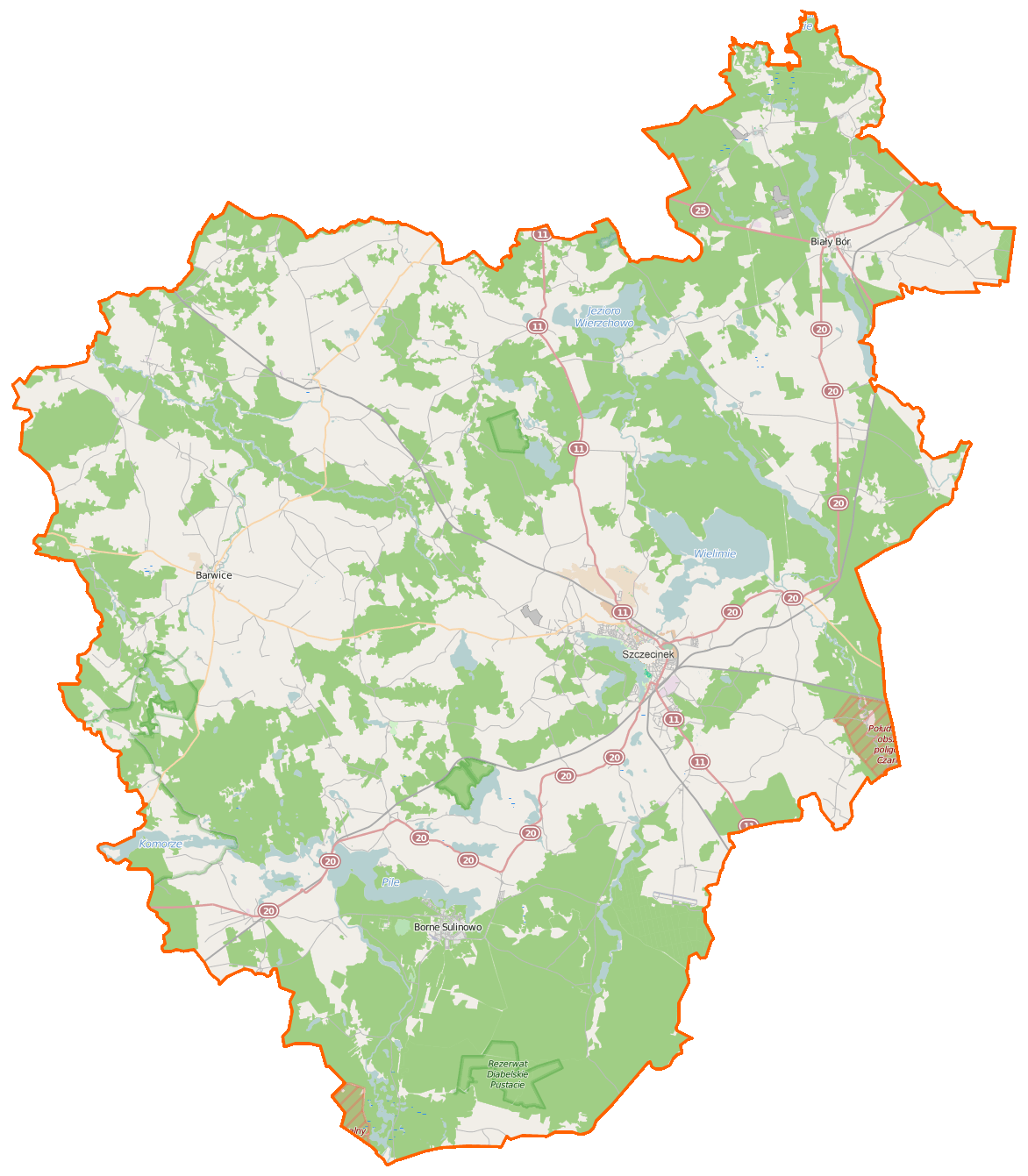 Map of Powiat szczecinecki, Poland This map of Powiat szczecinecki was created from OpenStreetMap project data, collected by the community. This map may be incomplete, and may contain errors. Don't rely solely on it for navigation.